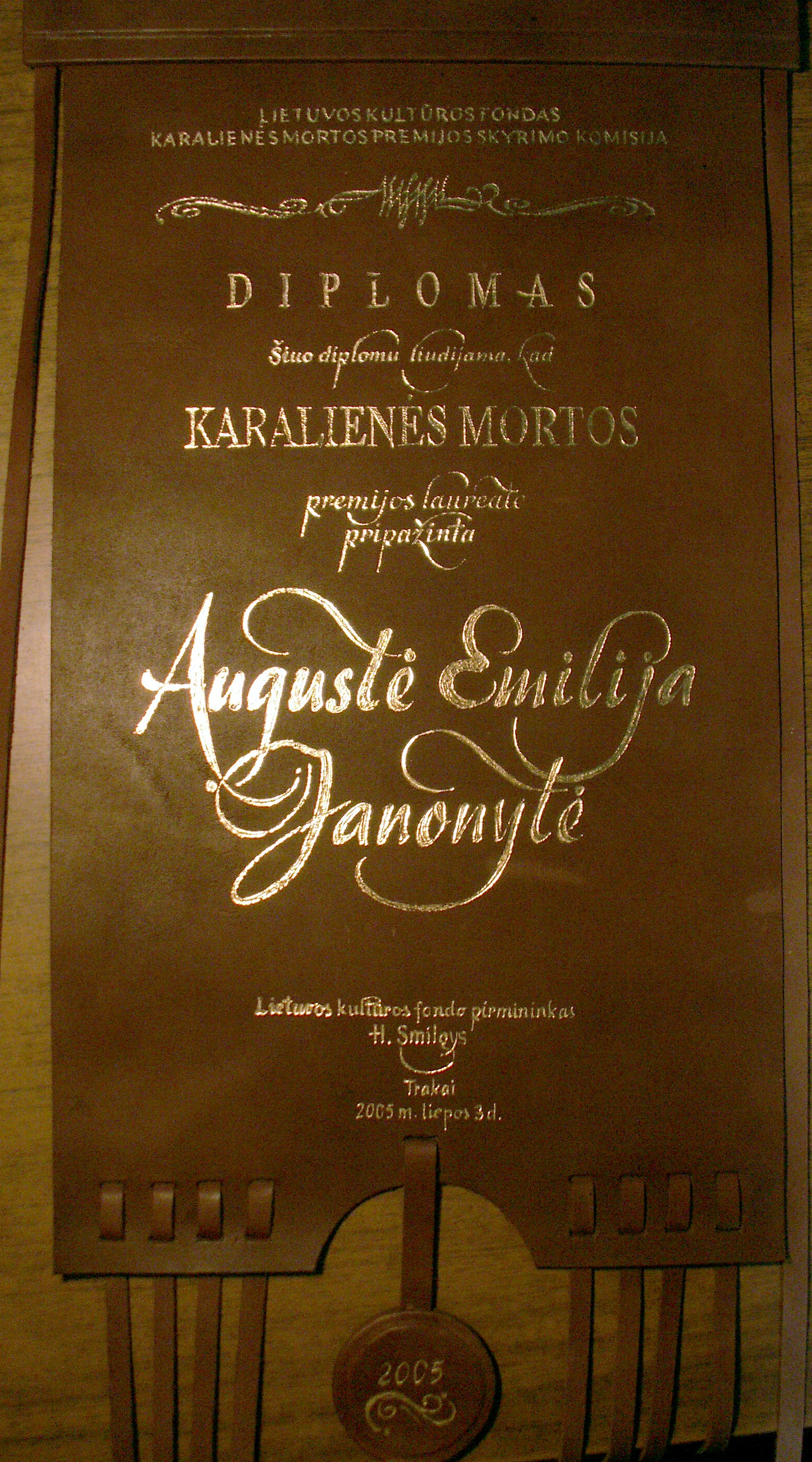 Liucija Čiutienė and Gražina Šimoliūnienė, diploma of laureate of prize of Morta, queen of Lithuania, leder